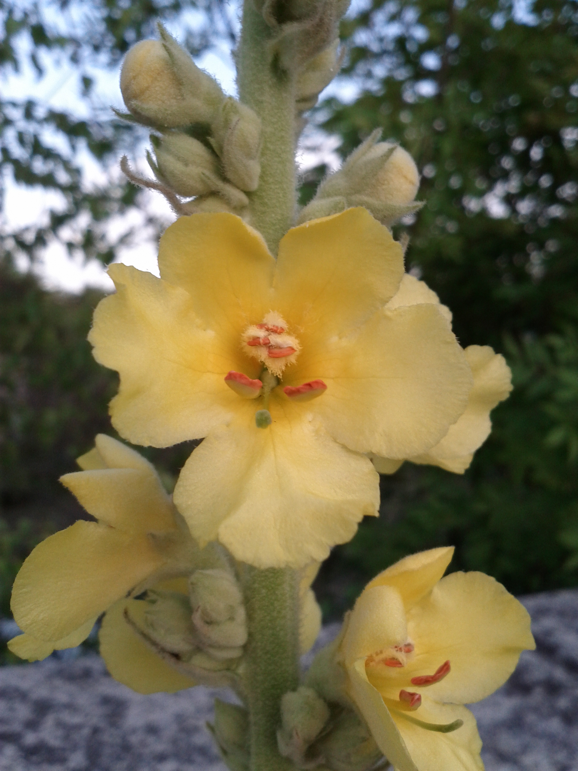 Inflorescence Taxonym: Verbascum phlomoides ss Fischer et al. EfÖLS 2008 ISBN 978-3-85474-187-9 Location: Strebersdorf, Floridsdorf, Vienna - ca. 160 m a.s.l. Habitat: ruderal area